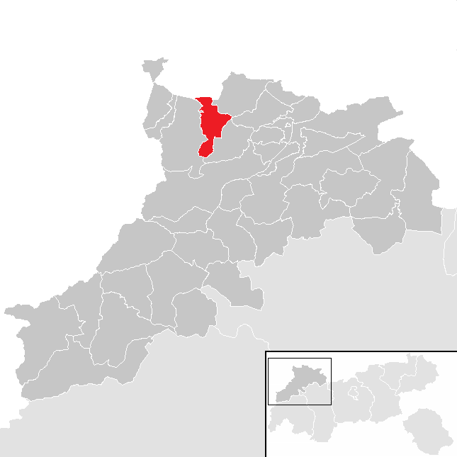 District Reutte